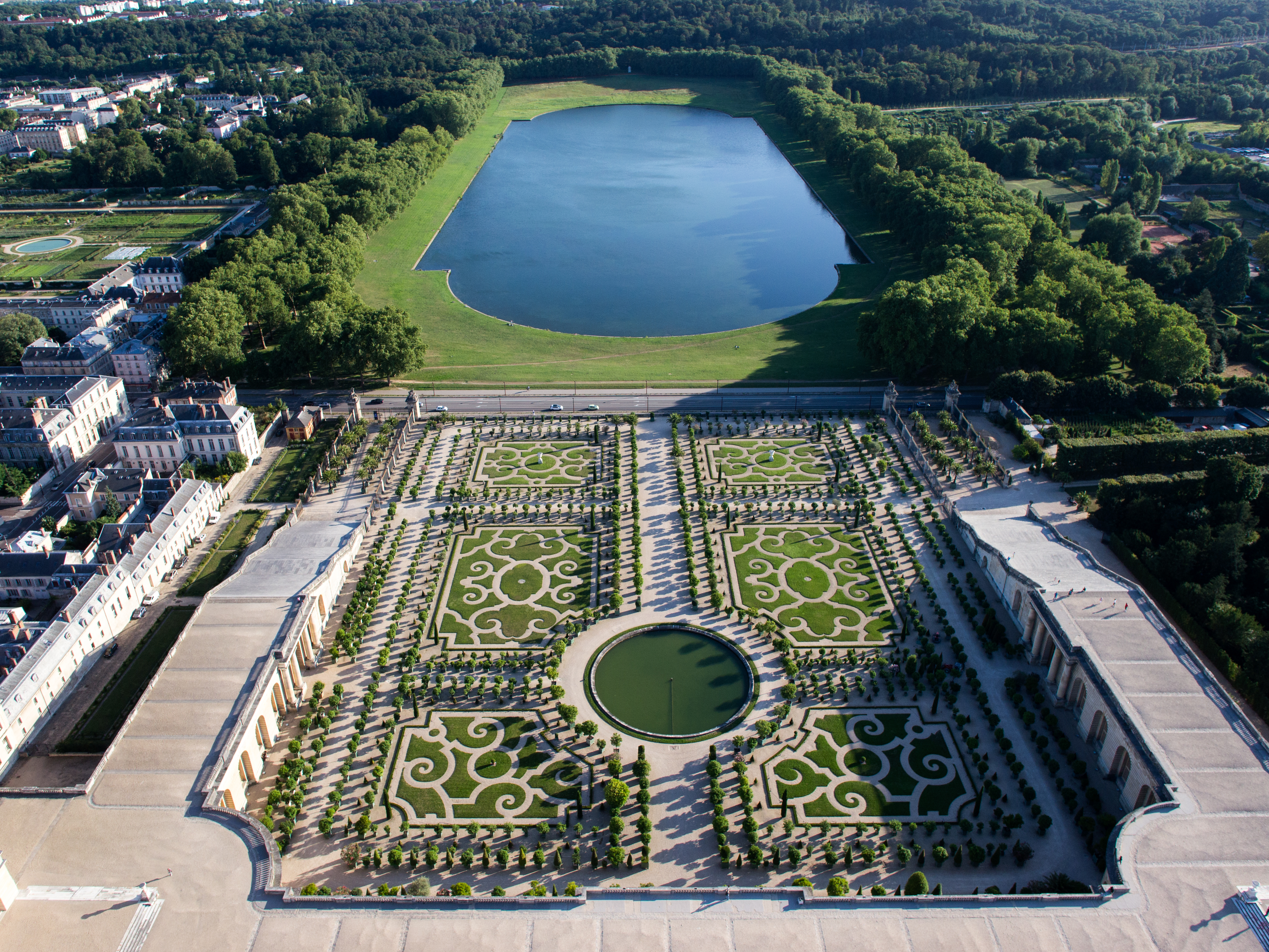 Aerial view of the Domain of Versailles, France